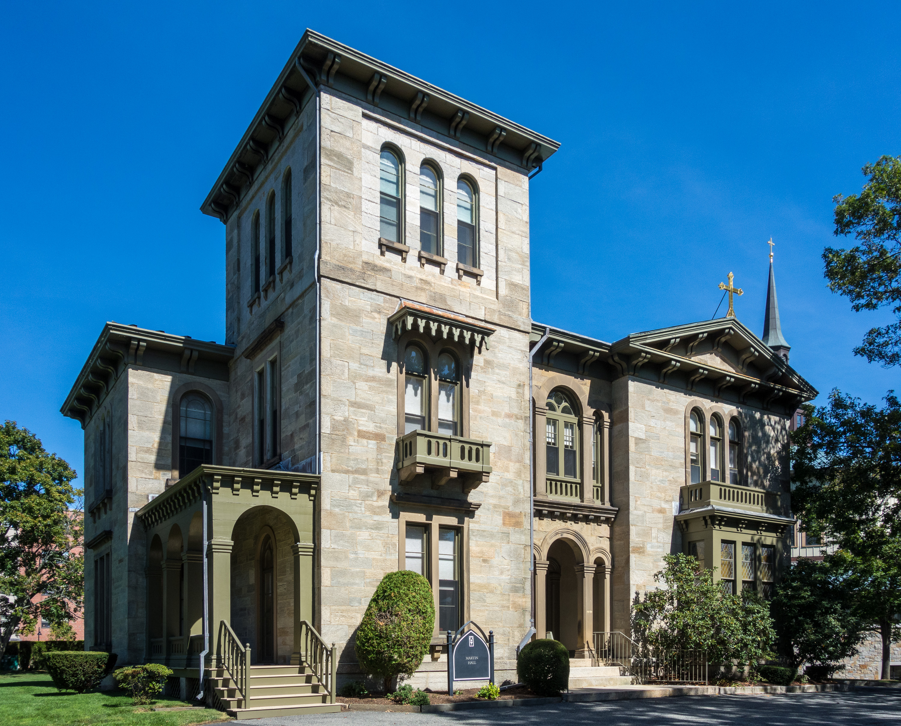 Martin Hall, Providence College, Providence Rhode Island. Formerly George M. Bradley House.